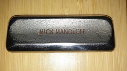 Metal polished chrome bar used to play slide stringed instruments. Manufactured by Nick Manoloff in Chicago, ILL. USA as early of the 1930's. Factory inscripted with filled in red ink or paint.